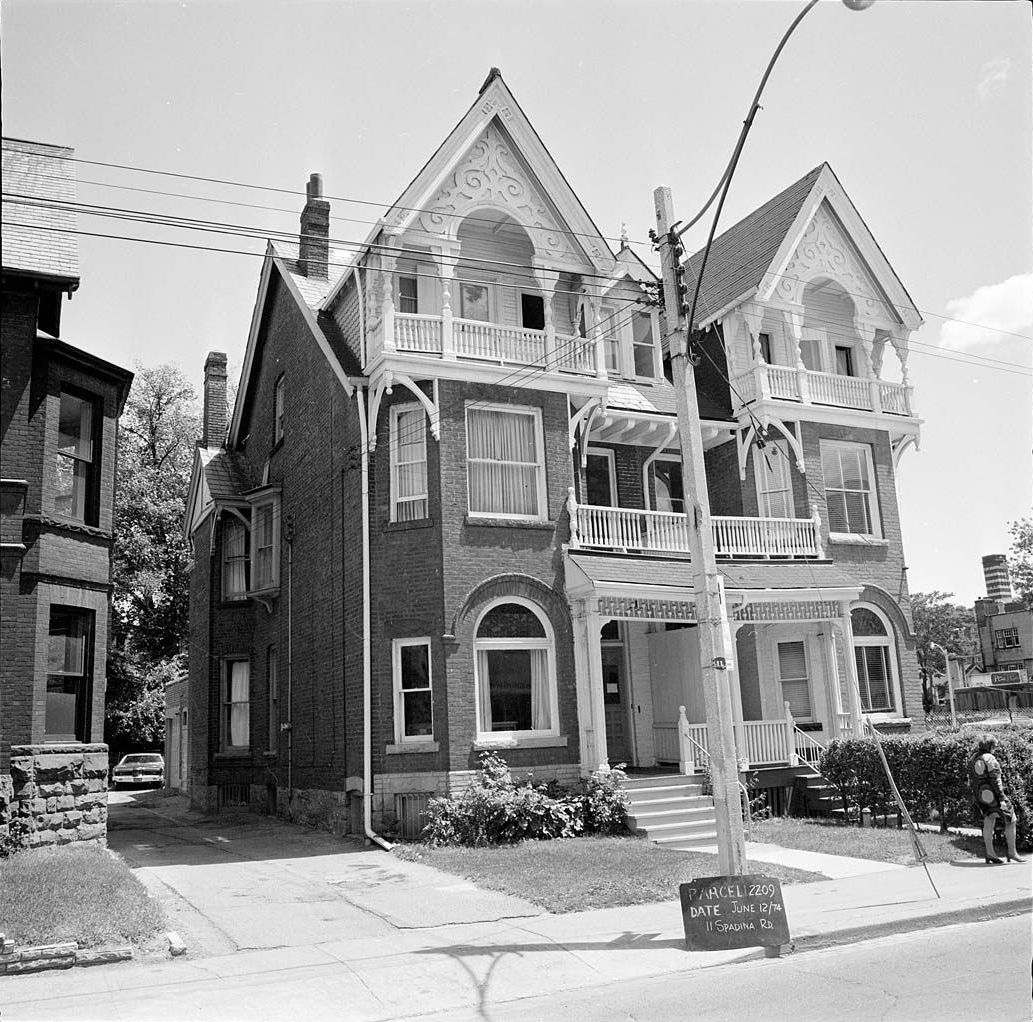 Photographer: Alexandra Studio June 12, 1974 City of Toronto Archives Series 1057, Item 8359